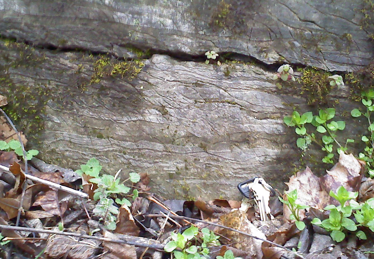 Outcrop of Conococheague Formation along Antietam Creek, near Hagerstown, Maryland. March 2011.